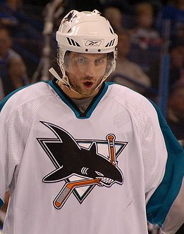 Mark Smith (left) and Curtis Brown (right) of the San Jose Sharks in a game vs. St. Louis Blues, November 28, 2006